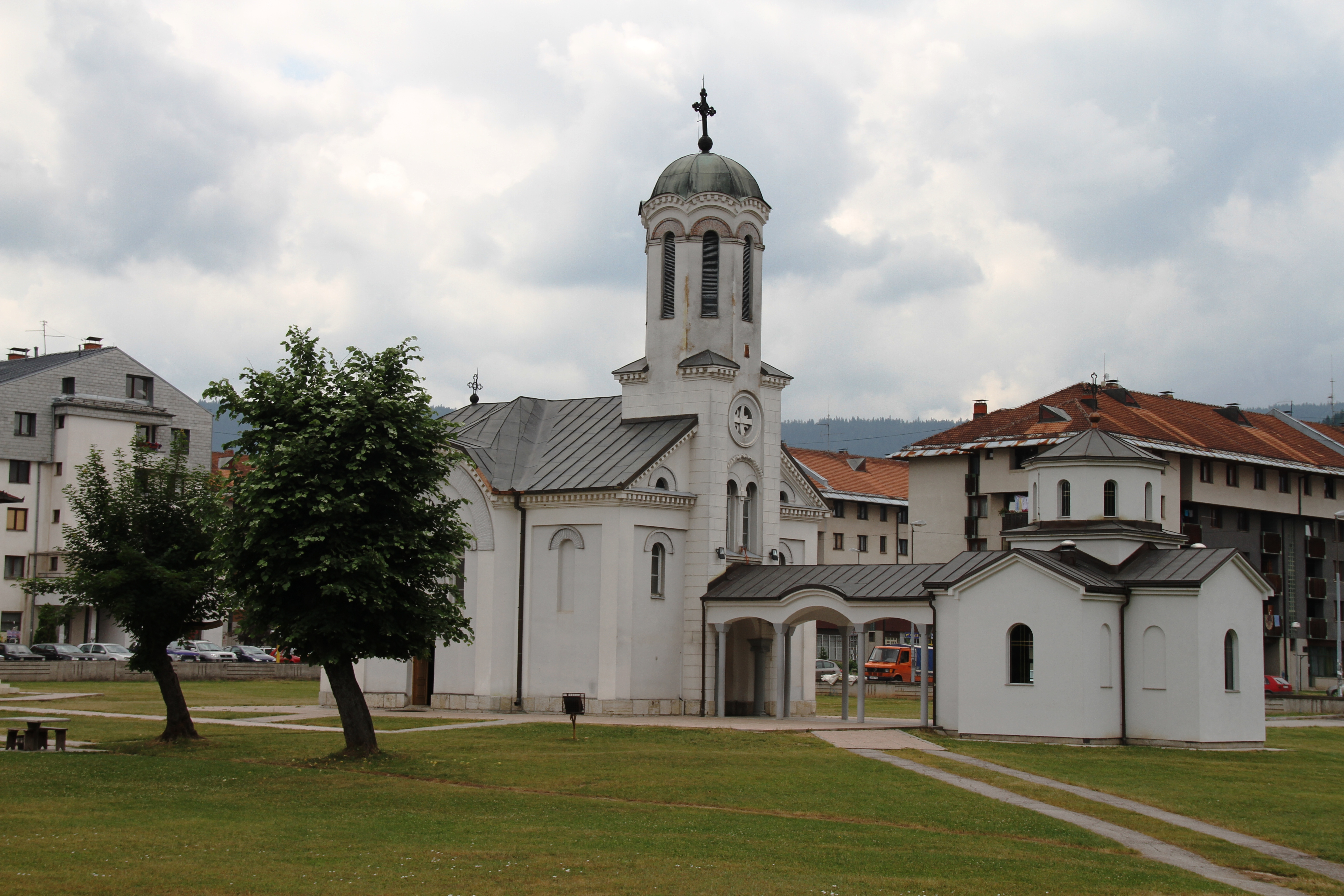 Sankt Grogori church in Pale, Republika Srpska, Bosnia-Hercegovina.